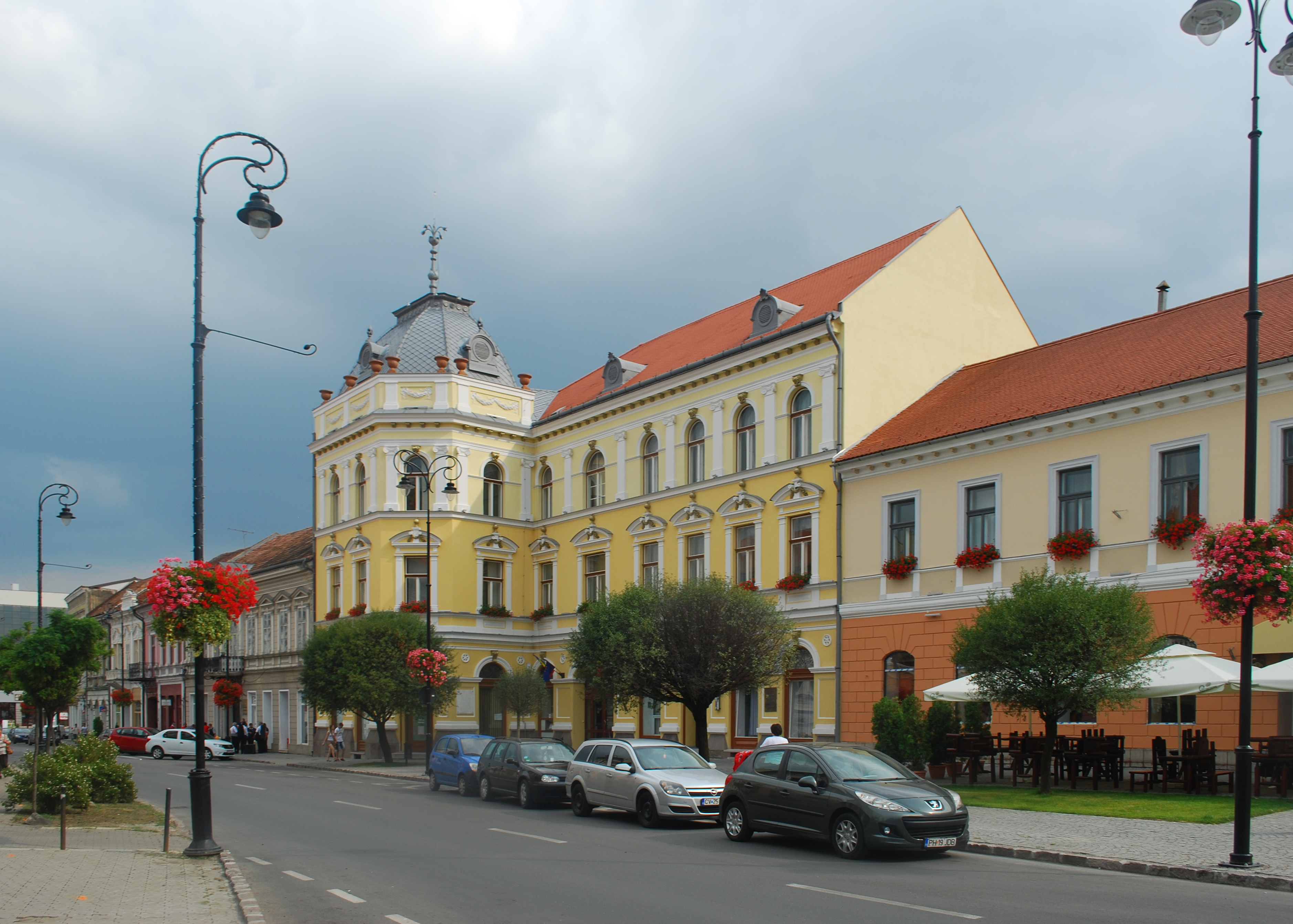 City hall of Sfântu Gheorghe, Covasna County, Romania